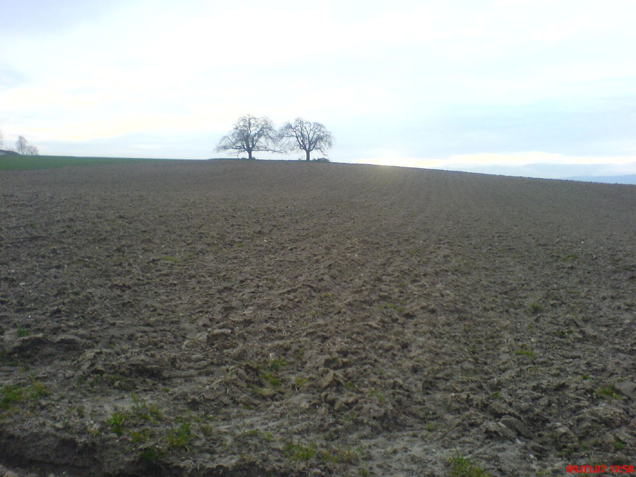 Empty field outside Echandens, Vaud, Switzerland